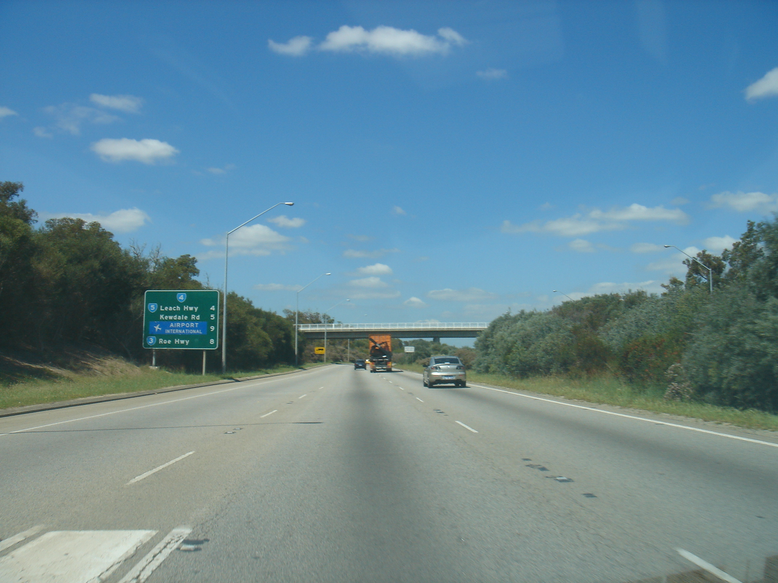 Tonkin Highway, Perth, Western Australia.